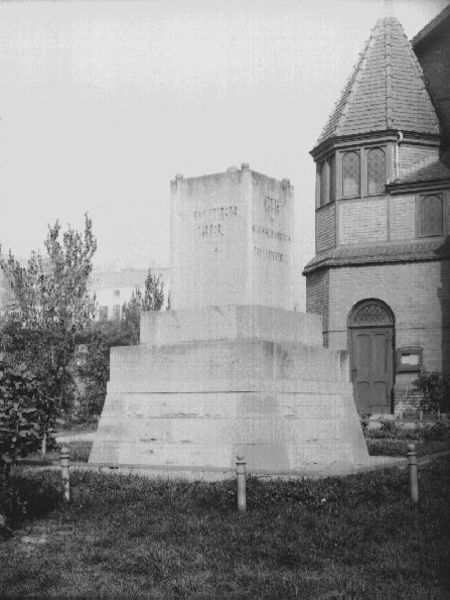 Cannon ball monument before the church “Auferstehungskirche” in Leipzig-Möckern